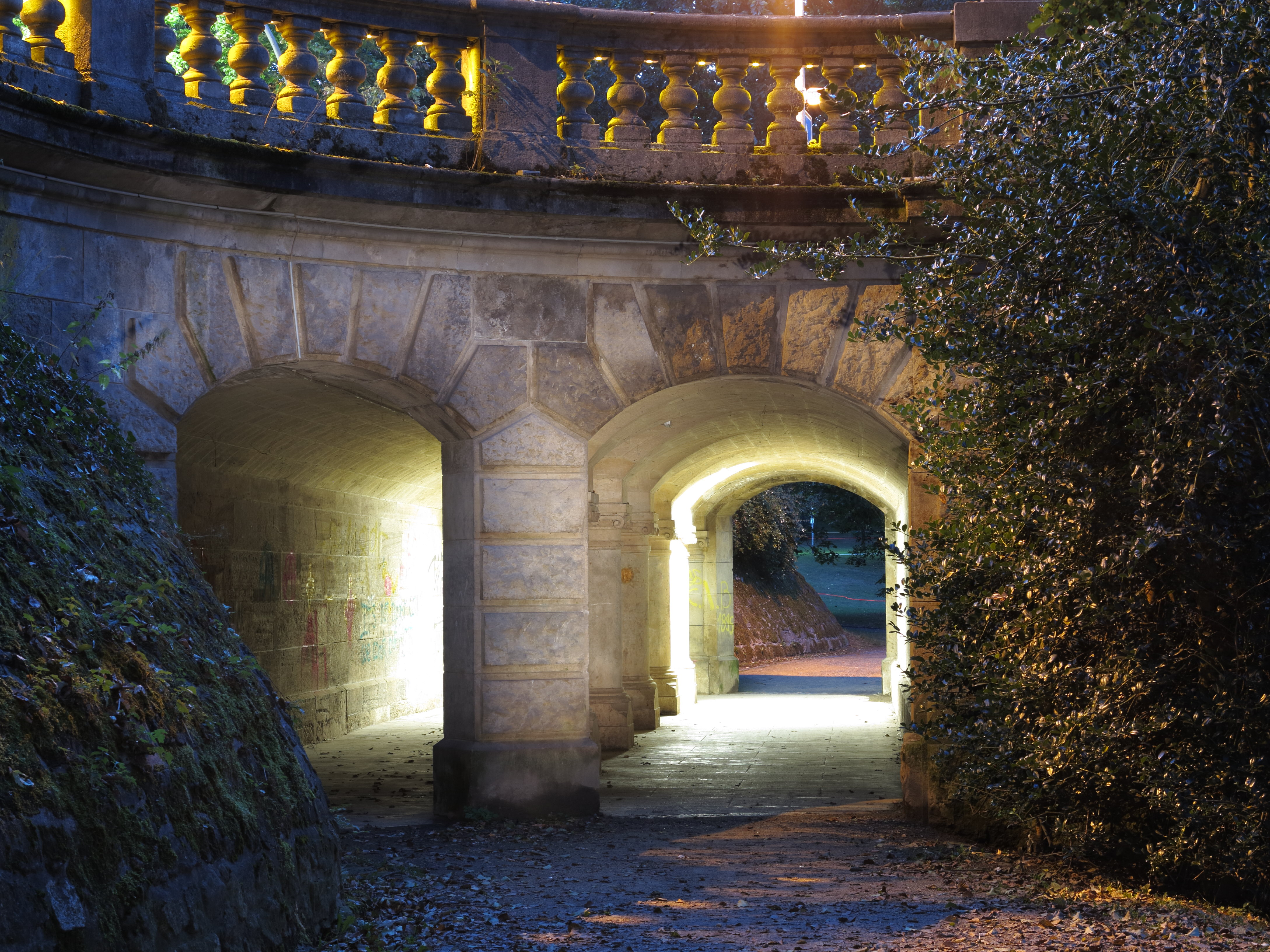 Braunschweig, Germany: the pedestrian tunnel under the bridge Jasperallee, which was built in 1889 to plans of architect Ludwig Winter